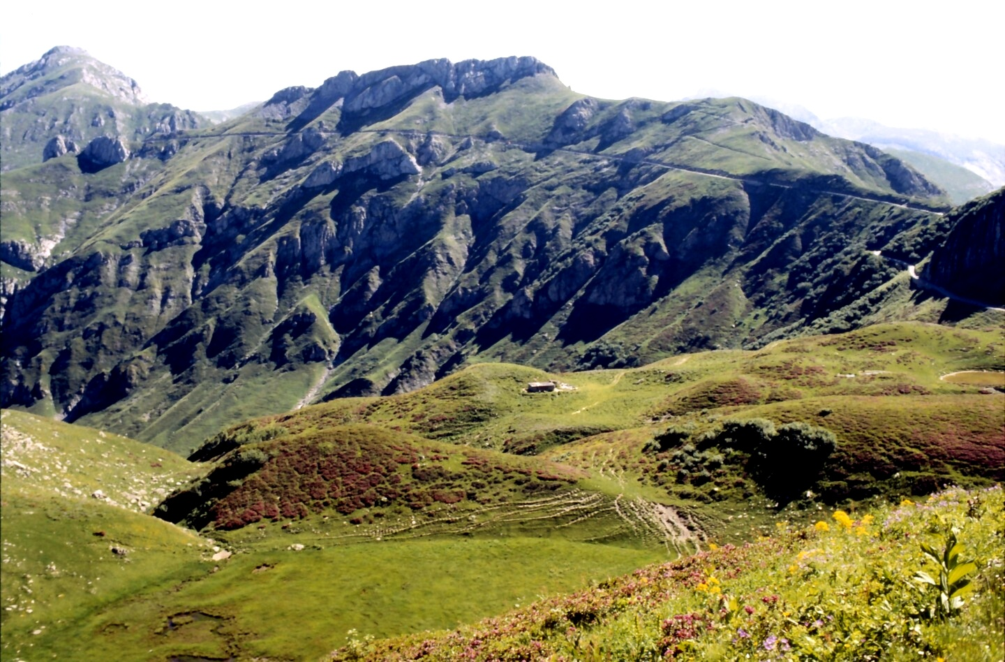 View to the Ligurian boundary mountain ridge road at the Col Boaire